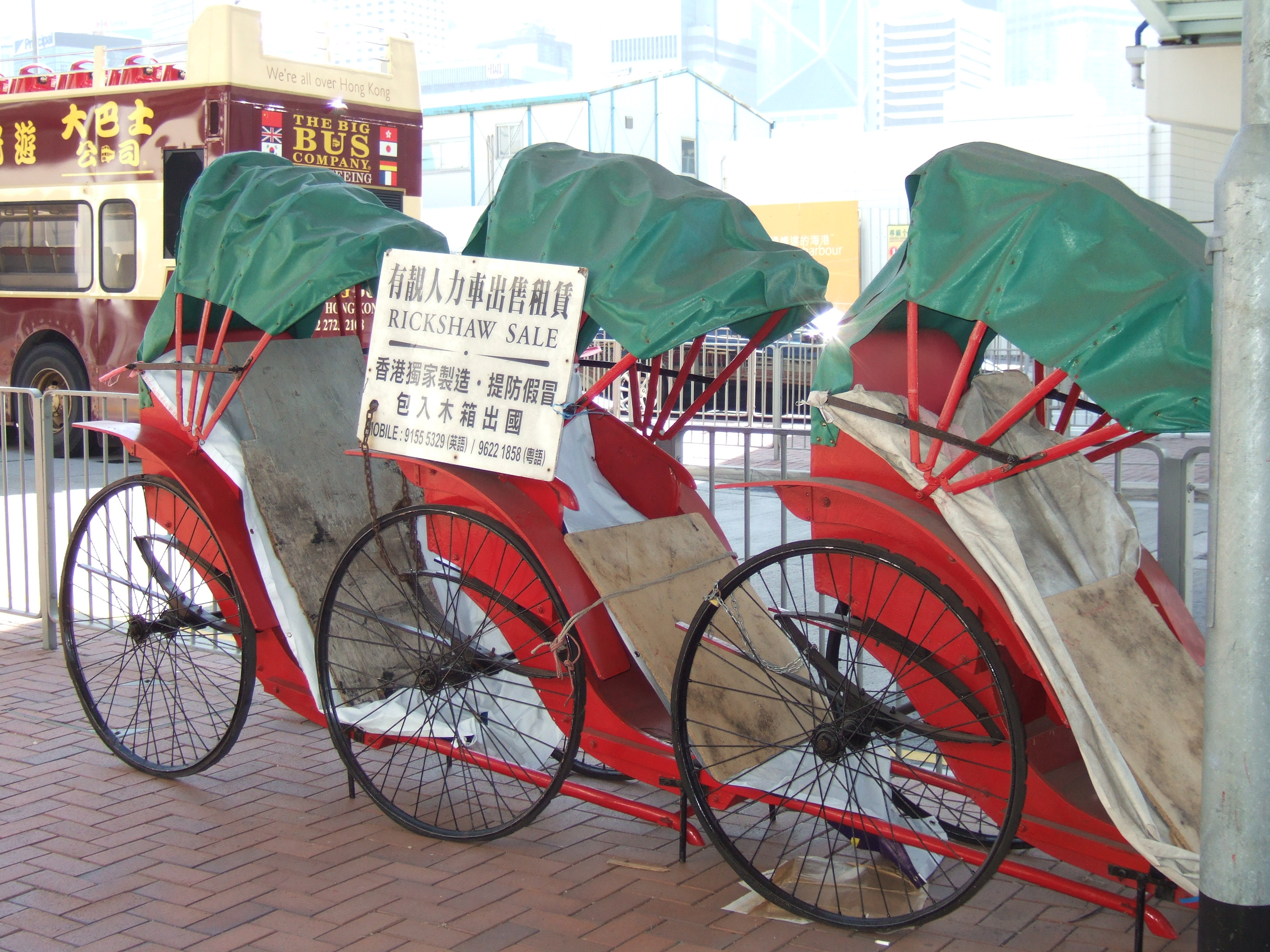 Richshaws for sale at Central Ferry Pier, Hong Kong